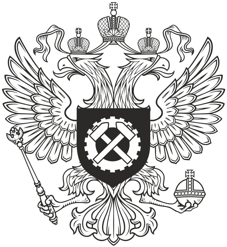 Emblem of the Rostrud, Russian Federation